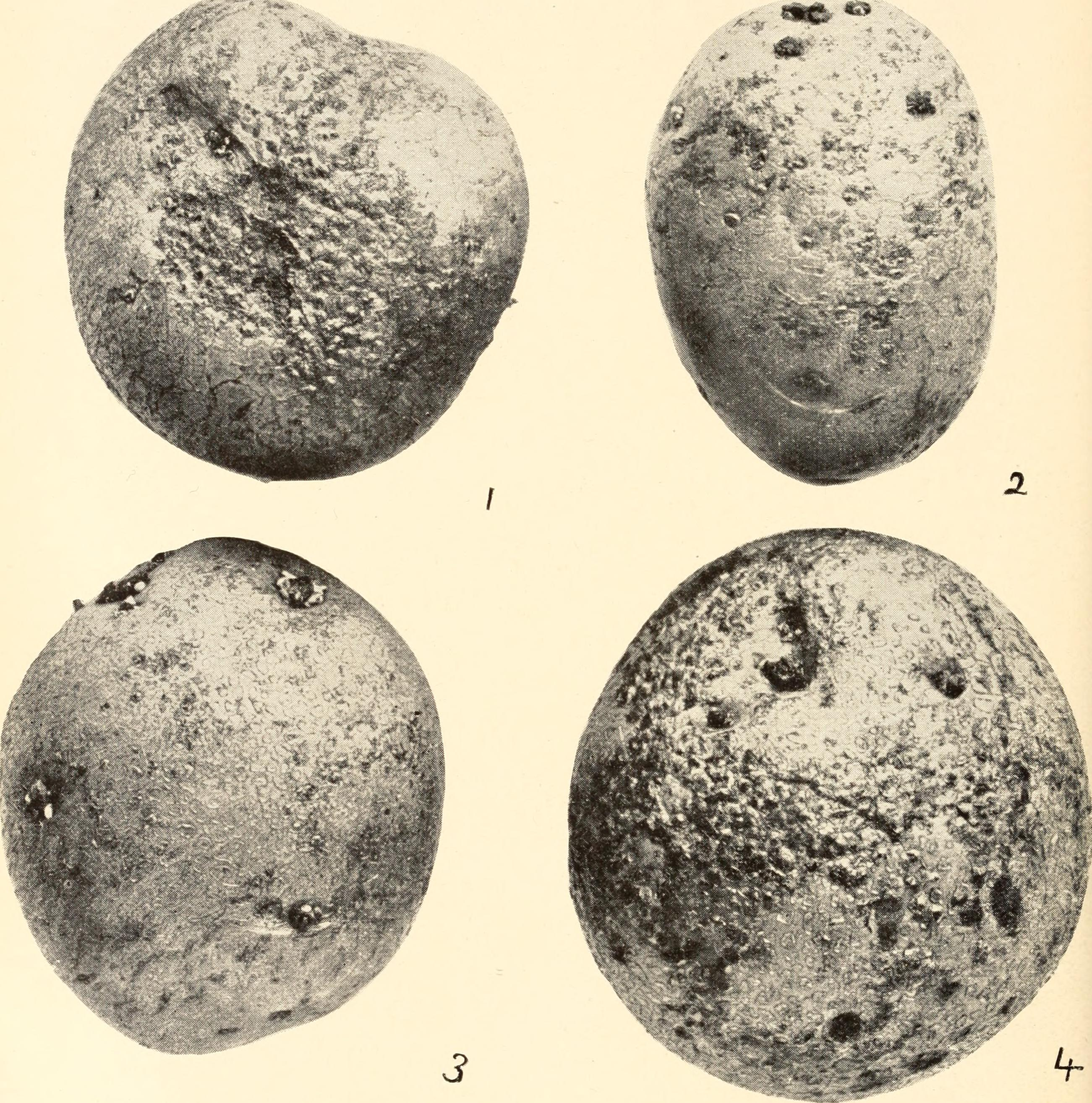 Title: The journal of the Ministry of Agriculture. Year: 1919 (1910s) Authors: Great Britain. Ministry of Agriculture Subjects: Agriculture Agriculture Publisher: London : Ministry of Agriculture and Fisheries Text Appearing Before Image: 3 I 2 Fig. I.—Drawing of dead Red Clover root in spring .sho\\-ing the blacksclcrotia at the collar and on the root. Fig. 2.—DraAnng shoAnng the toad-stool like bodies (apothecia) producedfrom the sclerotia with the soil washed awa\-. These fungi develop in late autumnand discharge spores which bring about new outbreaks of the disease. Fig. 3.—^I^hotograph of a group of apothecia in situ. (For this photograph theMinistry is indebted to Mi. F. R. Petherbridge, M.A., of Oimbridge University.) Text Appearing After Image: Potato Tubers affected with Skin Spot, i, 3, 4, Arran Chief ; 2, British Queen. 1920.) Skin Spot Disease of Potato Tubers. THE SKIN SPOT DISEASE OF POTATO TUBERS. (Oospora pustulans.)The following is an abridged and slightly modified accountof a paper by Miss M. N. Owen on the Skin Spot disease ofpotato tubers. The research was carried out in the MinistrysLaboratory for Plant Pathology at the Royal Botanic Gardens,Kew, and the original paper was published in the Kew Bulletin ofMiscellaneous Information, No. 8, 1919. As this httle-knowndisease appears to be on the increase, and as it is capable ofcausing considerable damage to the eyes of seed potatoes, itis thought advisable to reprint a portion of the article and oneof the illustrations. For technical details the reader is referredto the full paper. *♦♦*♦* Introductory.—The disease known as Skin Spot is one of theminor diseases of potato tubers, and one which has never beenthoroughly investigated. It is essentially a disease